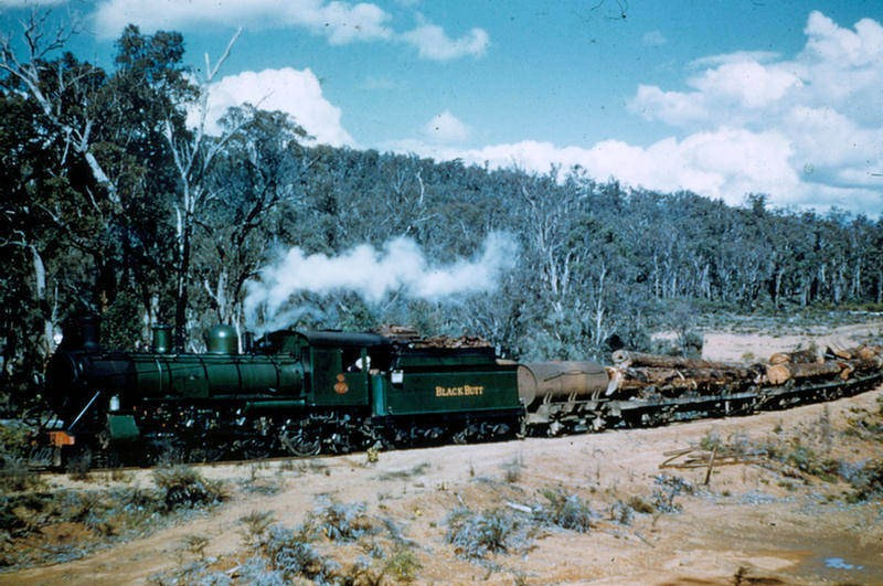 WAGR C class steam locomotive no. Cs270 Black Butt hauling a log train on the WAGR saw mill line at Banksiadale, Western Australia.